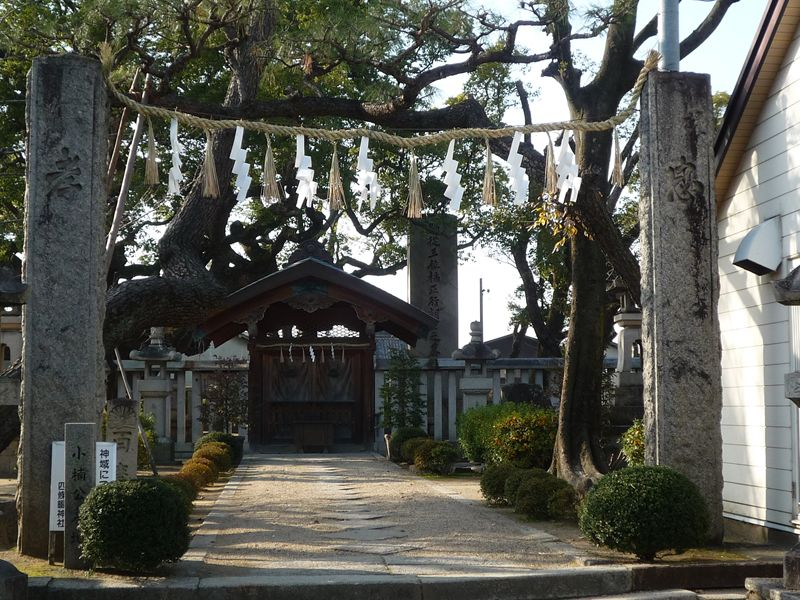 "ShoNanko-Gobosho" is a cemetery of Kusunoki Masatsura in Osaka, Japan.